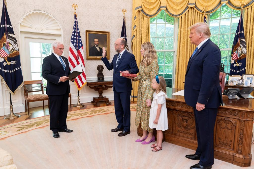 Russell Vought being sworn in, on July 22, 2020, by Vice President Michael Pence. President Donald Trump looks on.